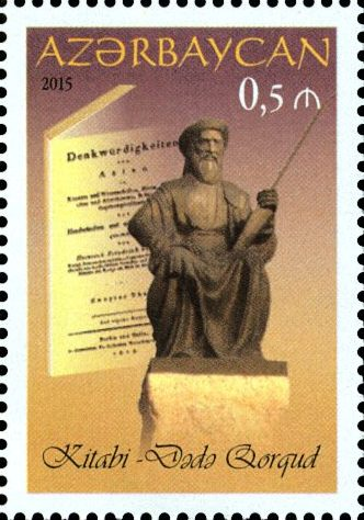 The Book of Dede Korkut. N 1233 - 50 qapik –The stamp is devoted to the 200th anniversary of the translation of the ancient epos "Dede Korkut" into German by the outstanding Prussian orientalist Heinrich von Diez.